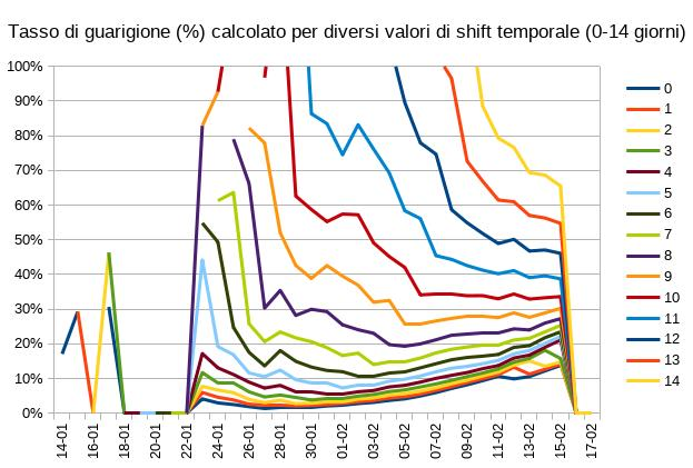 Recovering rate progression in SARS-CoV-2, China 2020, calculated for different values of time shift